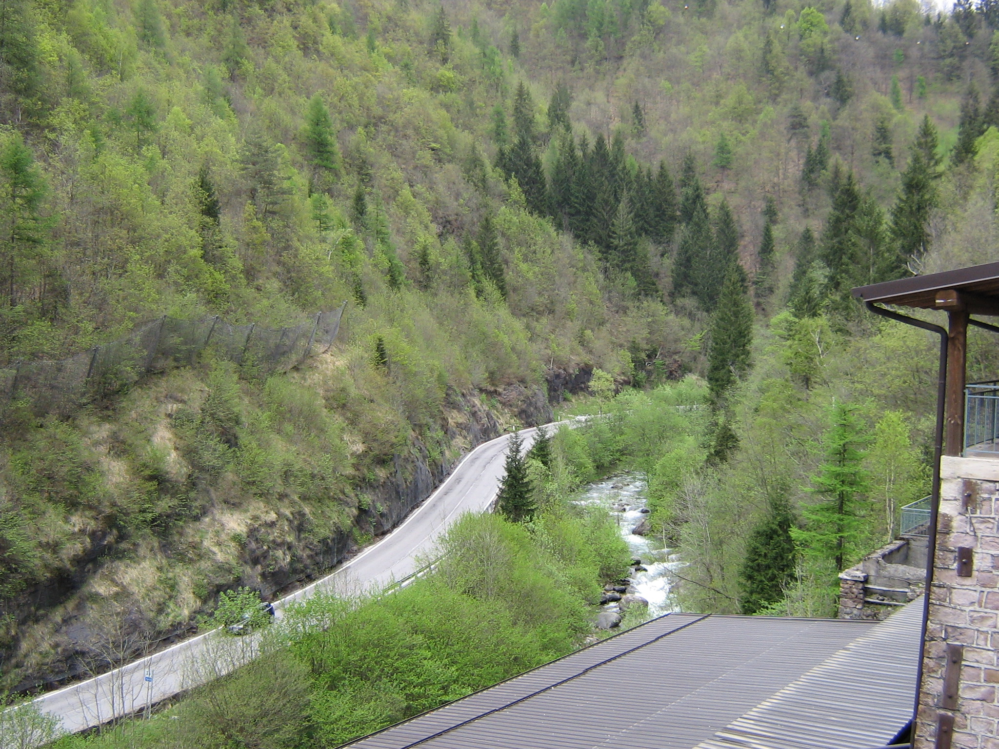 Mella river, near Collio (Province of Brescia, Lombardy, Italy), followed by the road formerly known as SS 345. This picture was taken from the former iron mine of S. Aloisio.